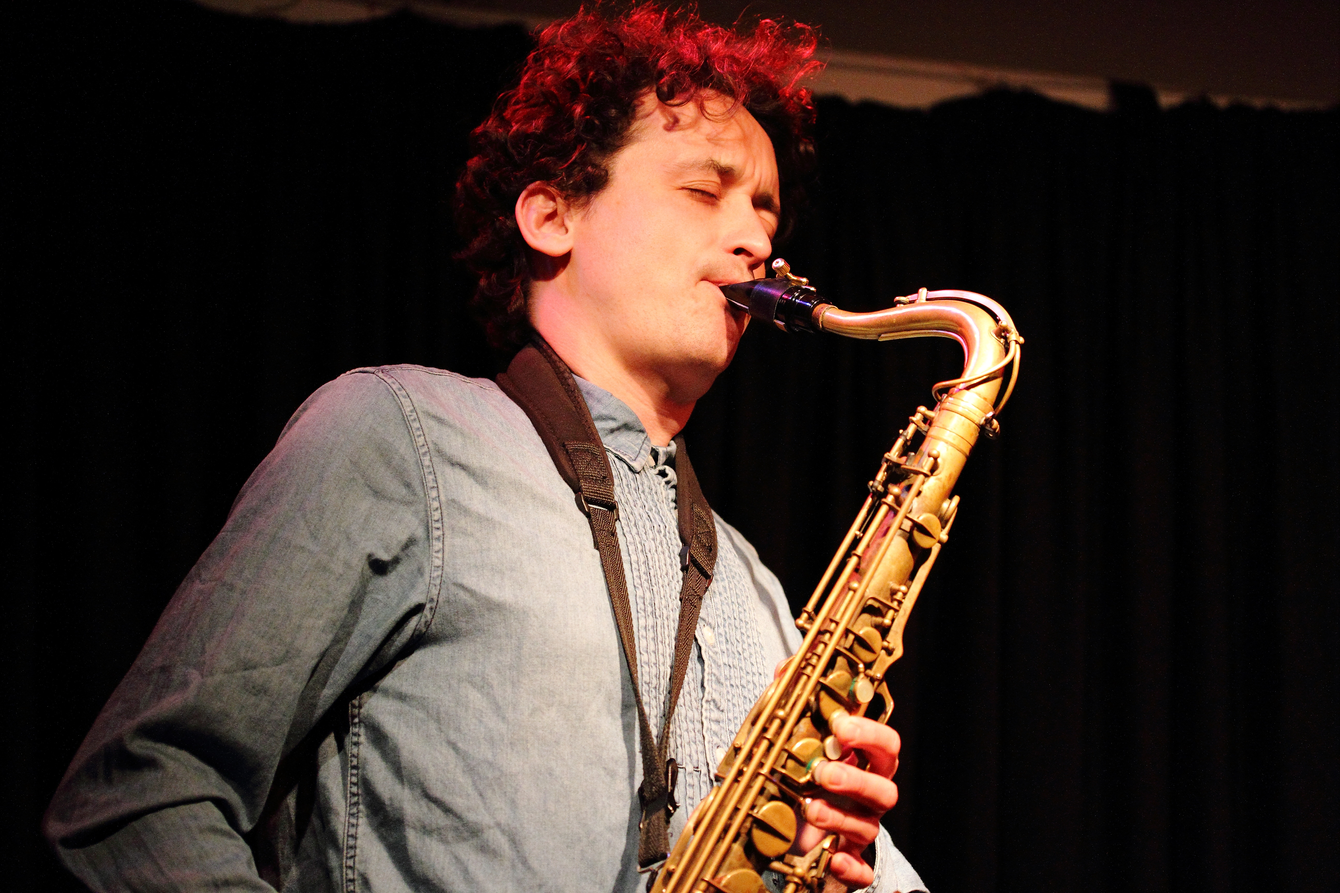 The saxophone and clarinet player Joachim Badenhorst from Belgium playing with baloni at Club W71, Weikersheim.